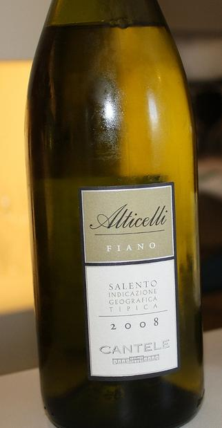 Italian white wine made from the Fiano grape in the Salento peninsula of southern Italy.